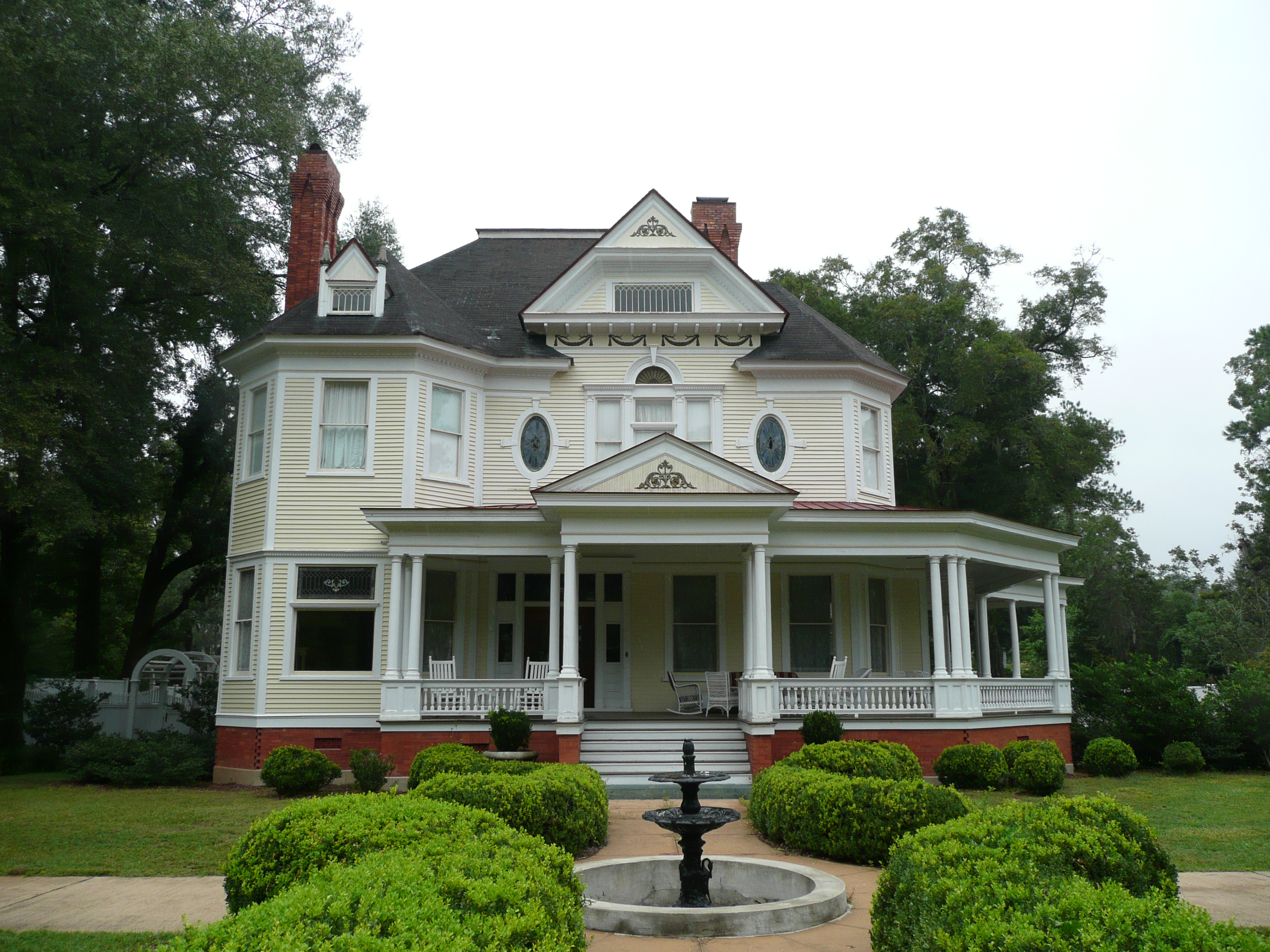 Historic home in Bainbridge, Georgia, USA.